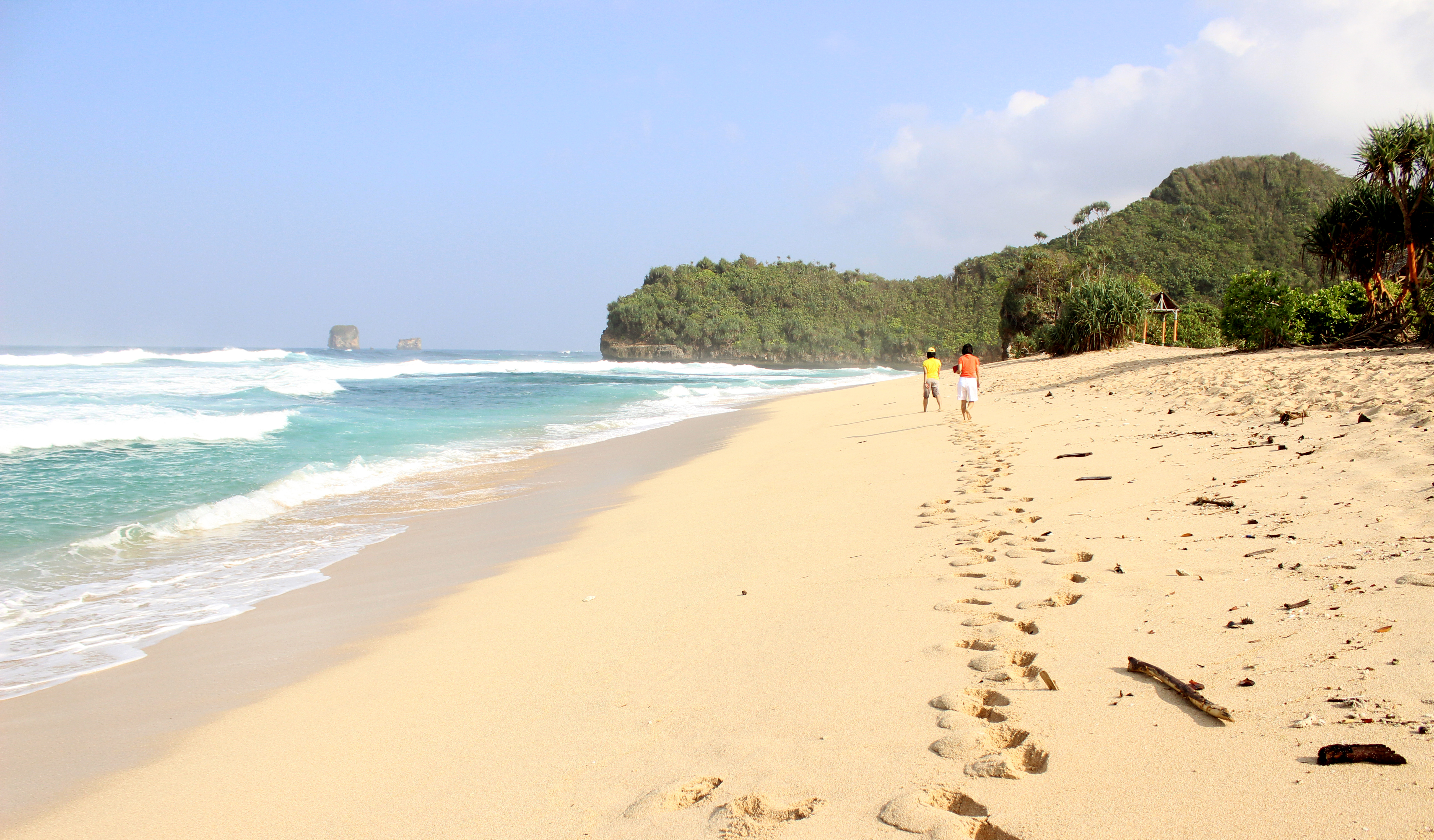 Goa Cina Beach in East Java, Indonesia